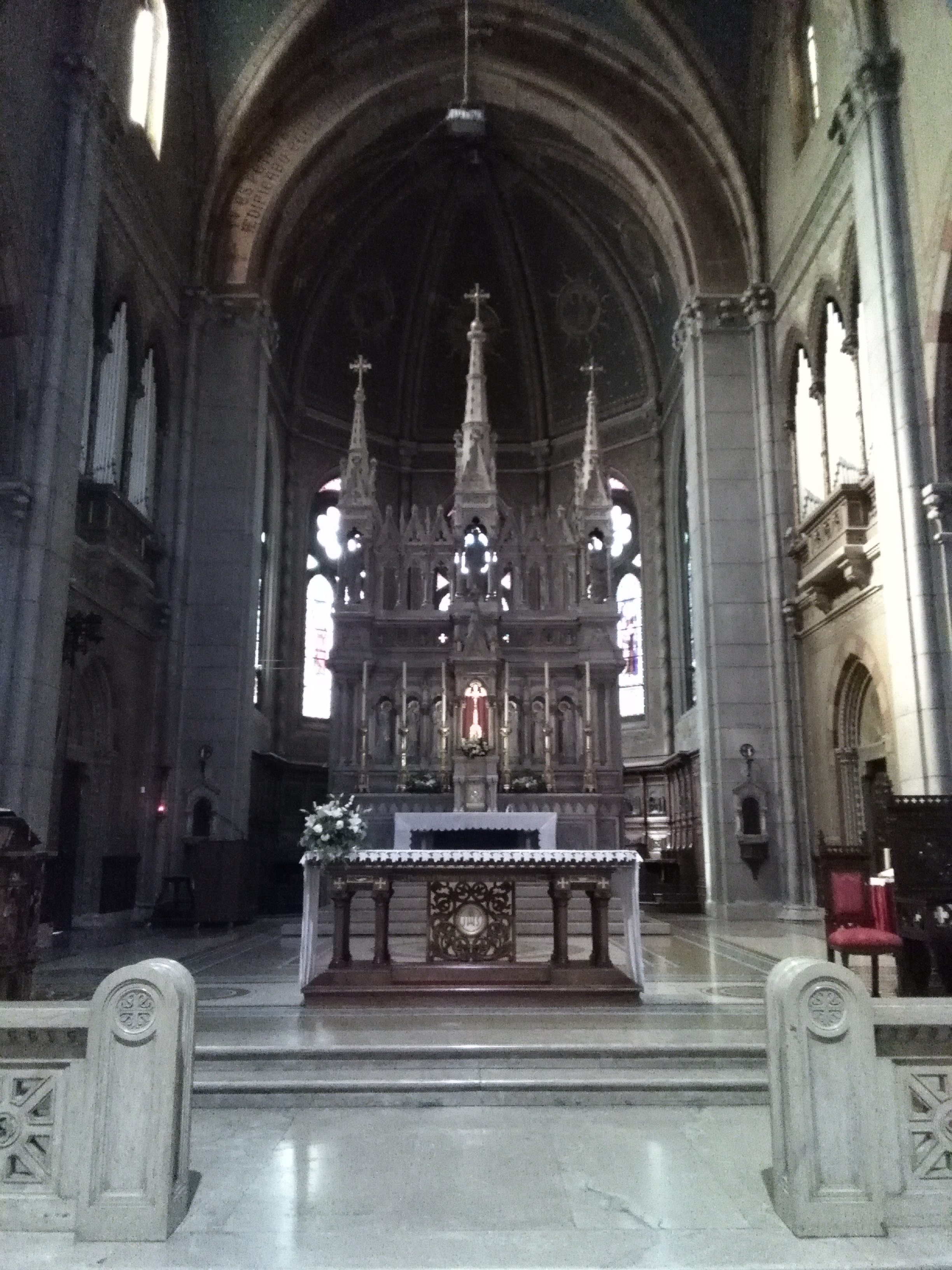 Prepositurale di Lissone, Altare Maggiore